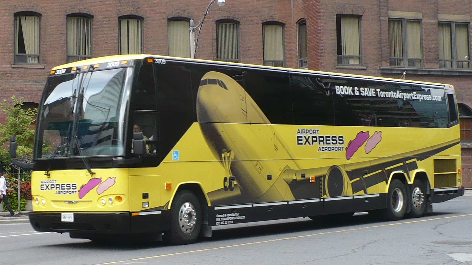 Pacific Western Airport Express